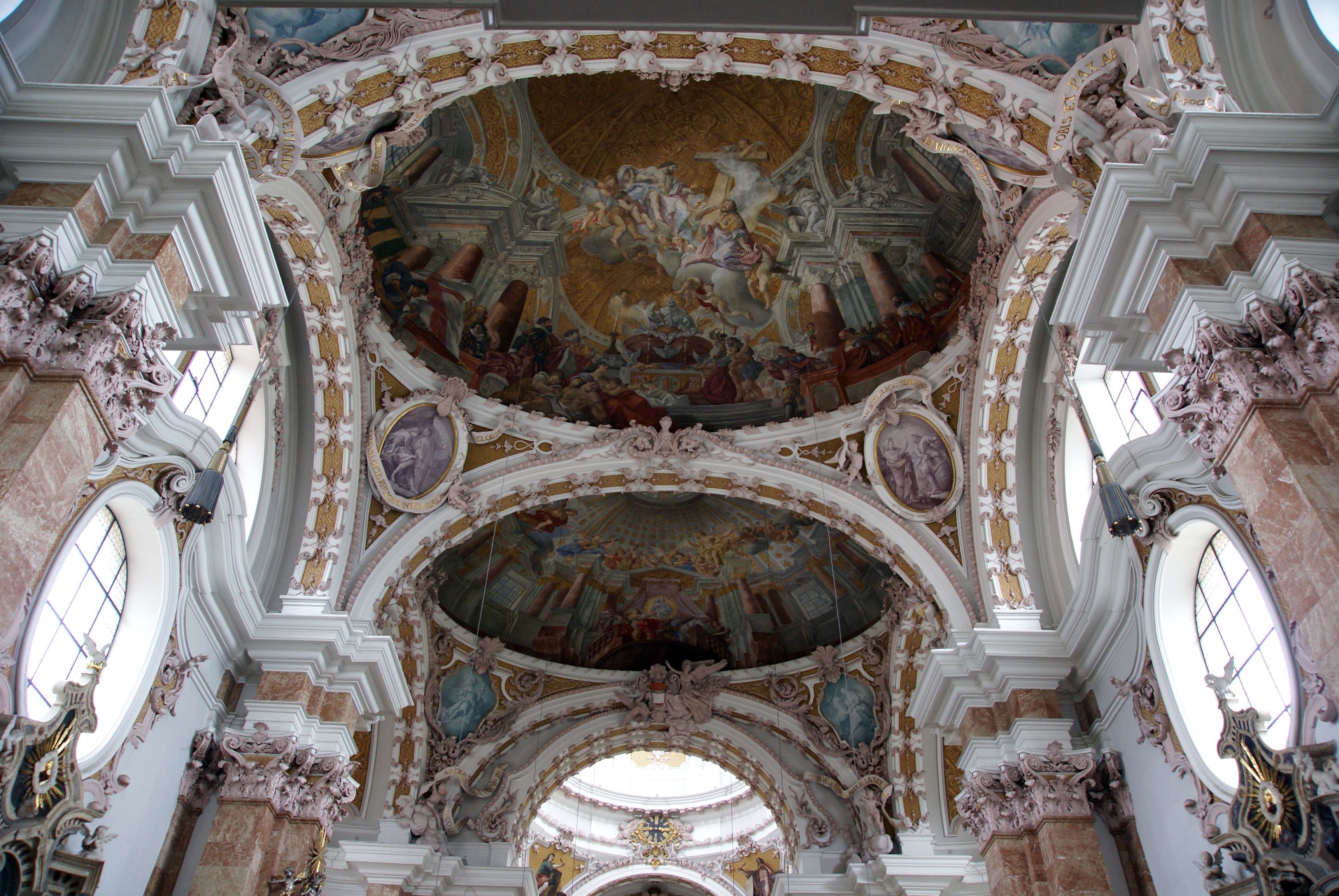 Cathedral of St. James in Innsbruck, Austria